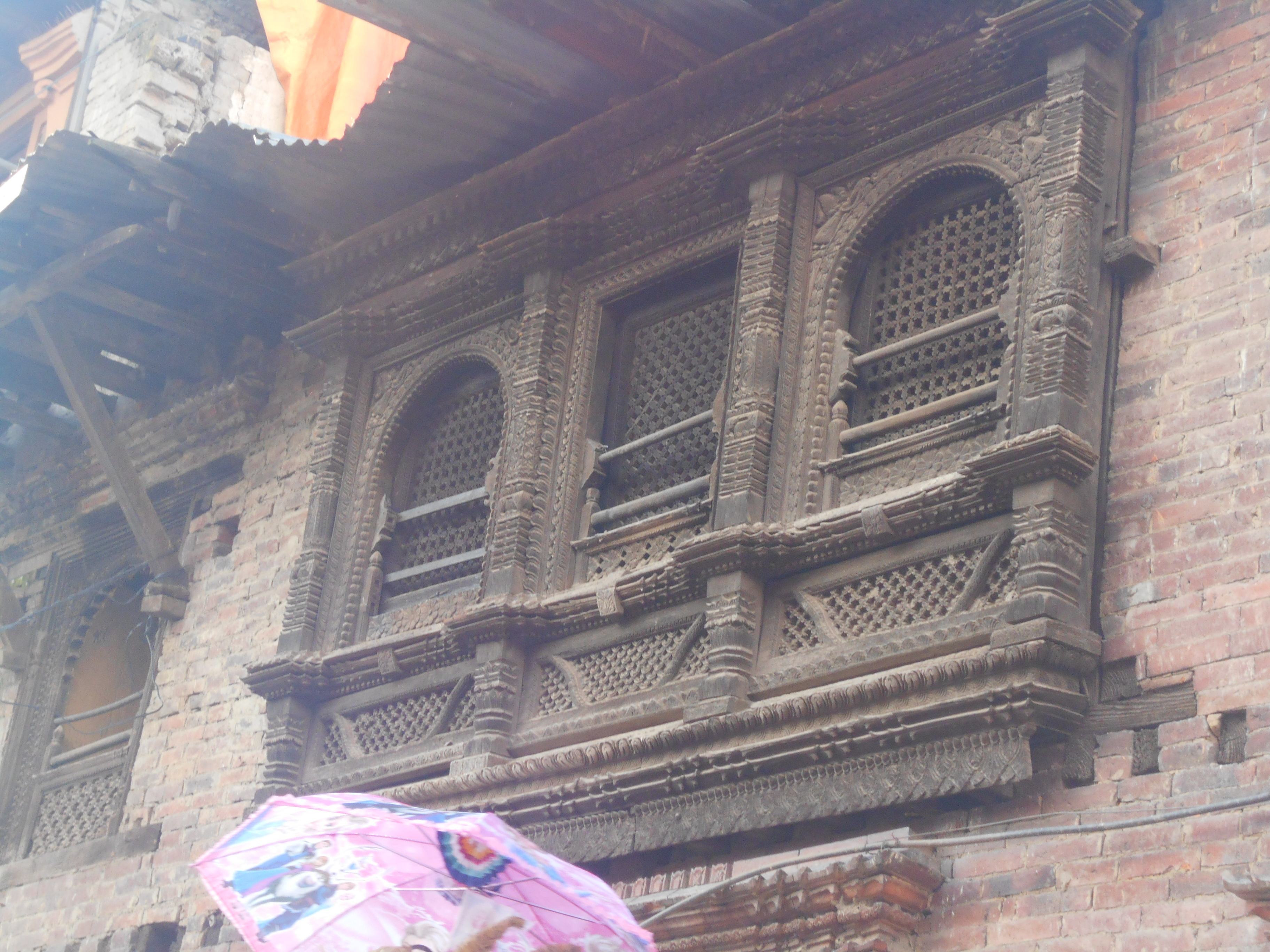 भक्तपुर गाईजात्रा २०७२